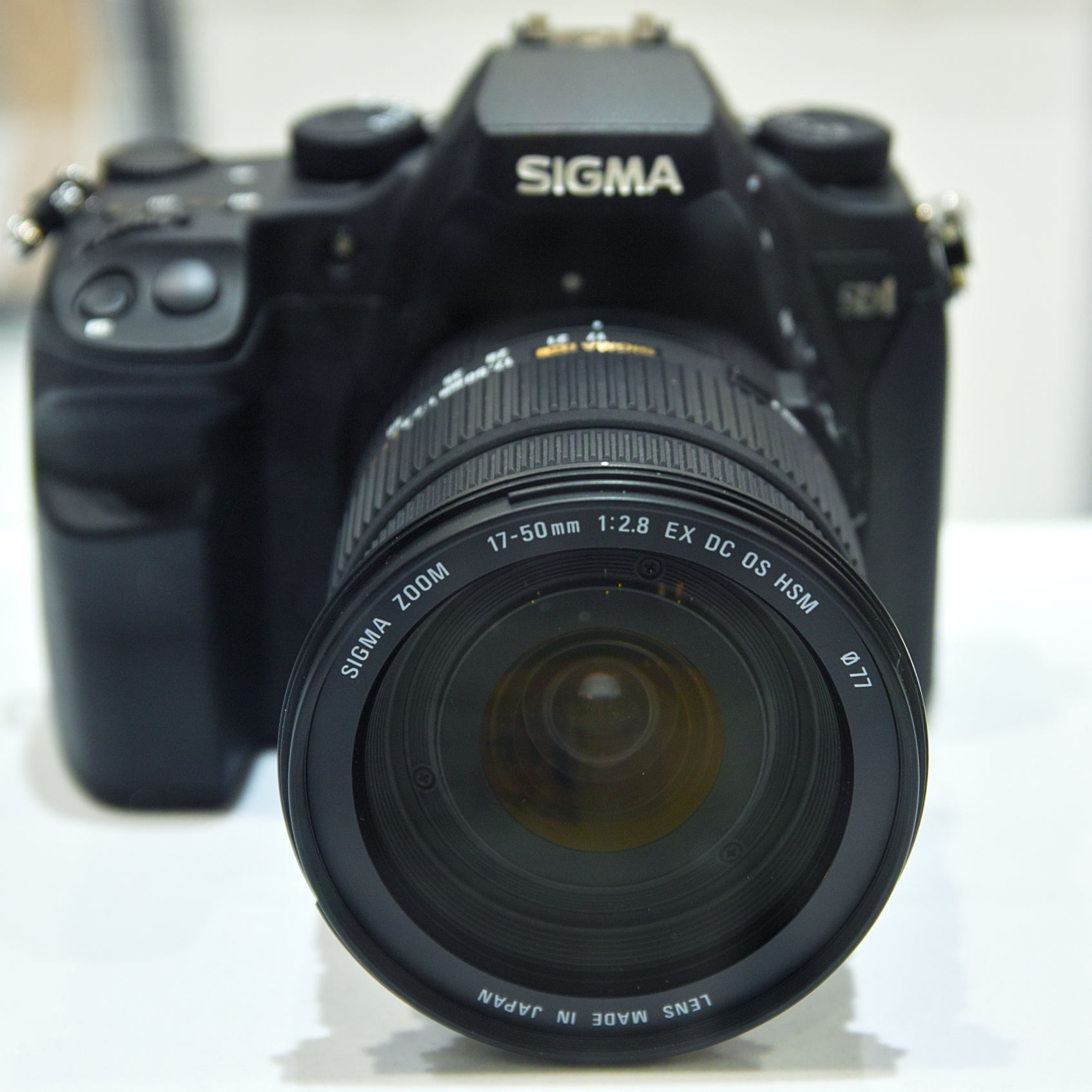 SIGMA Introduced new Foveon DSLR body SD1 Merrill almost same specification as SD1 but way lower price tag. "Merrill" logo is only the difference.